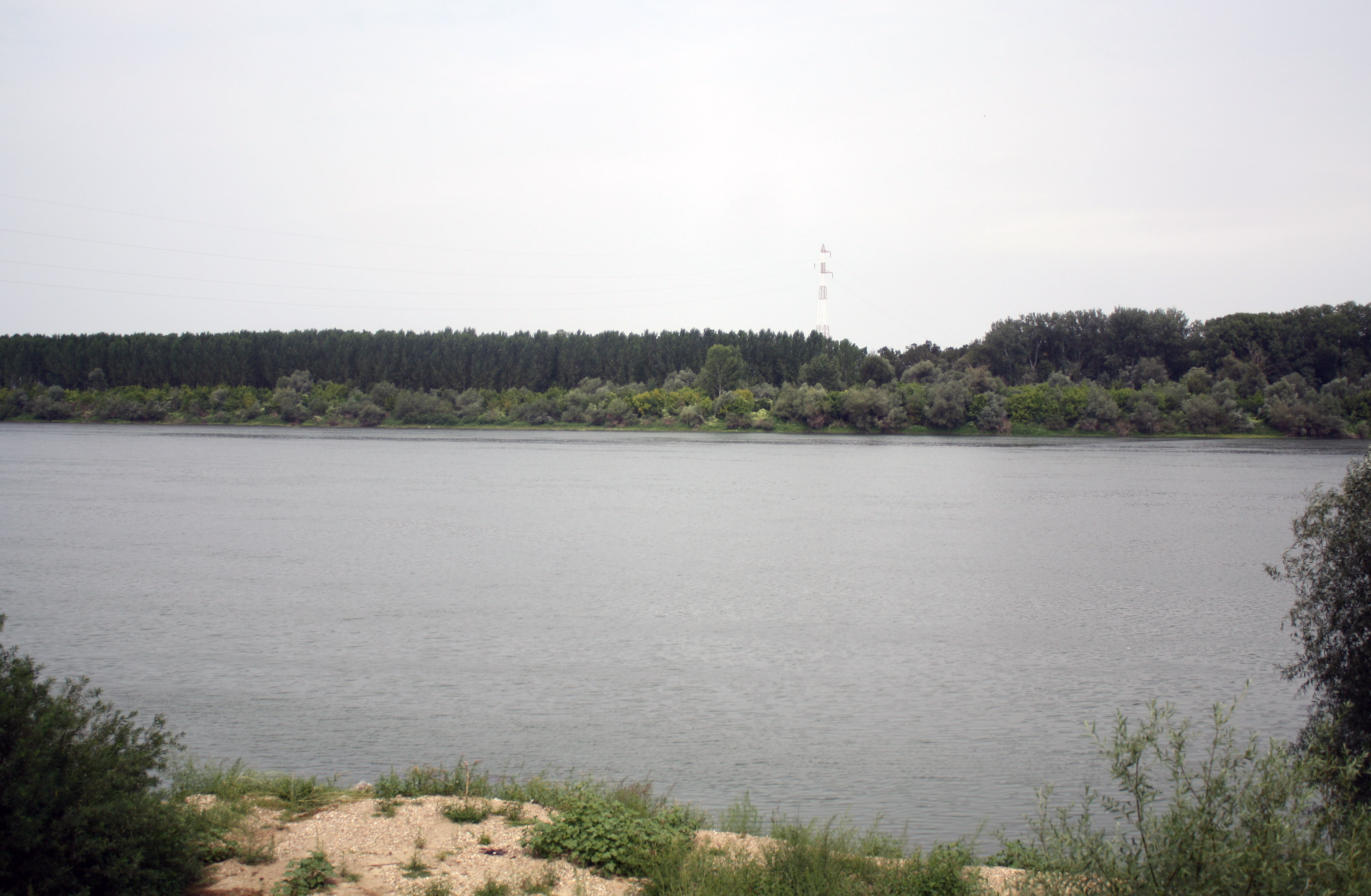 Sava river in Mišar village near Šabac